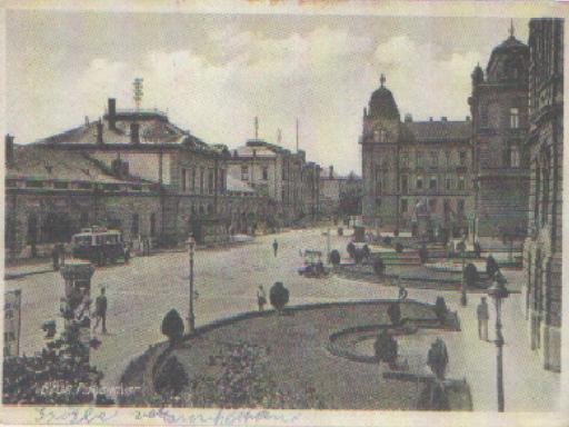 Railway station of Győr, Hungary